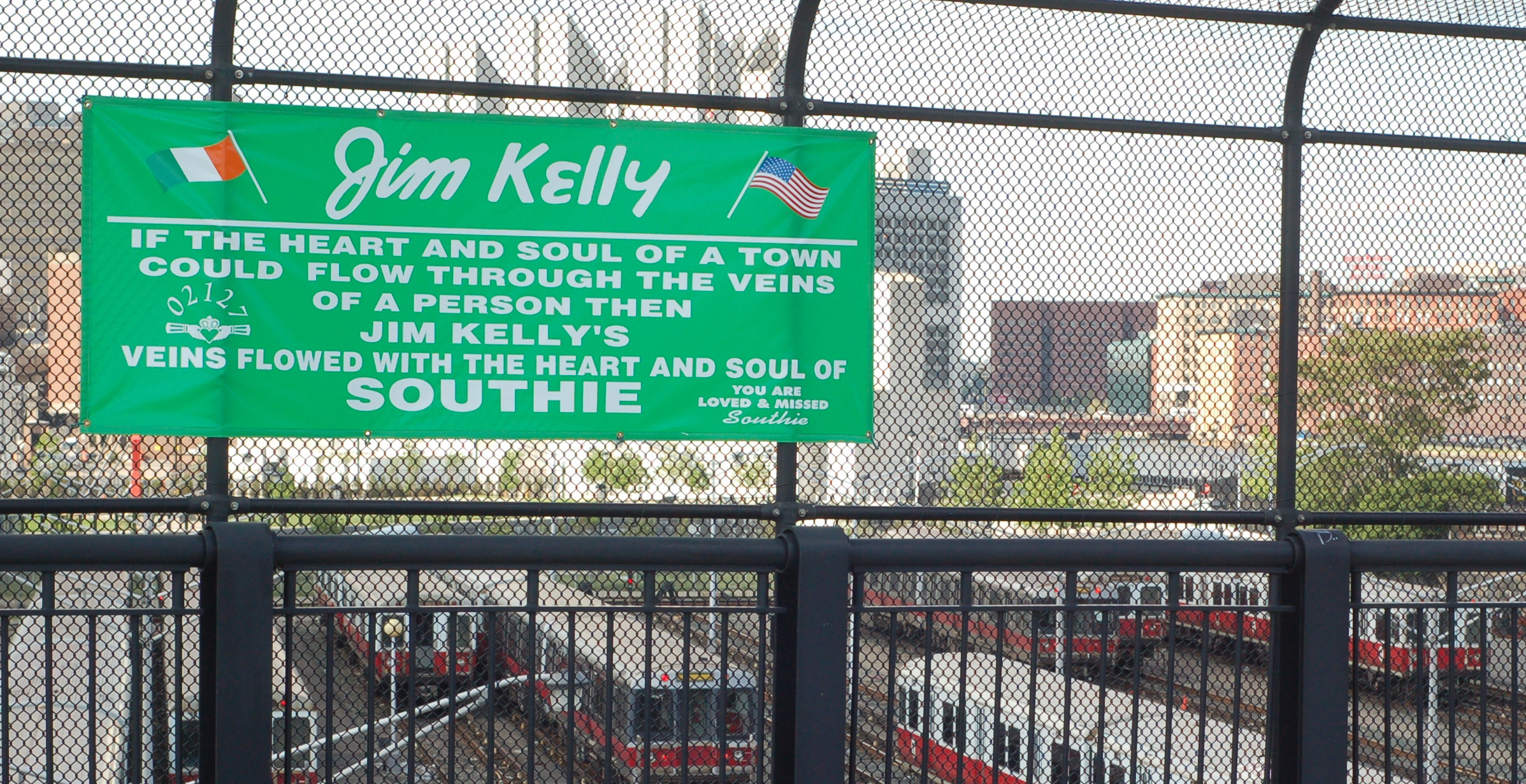 Sign related to death of James Kelly, Boston councilman, 2007